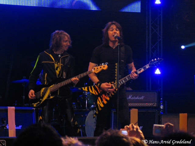 Stryper at Skjærgårds M&M, 2006